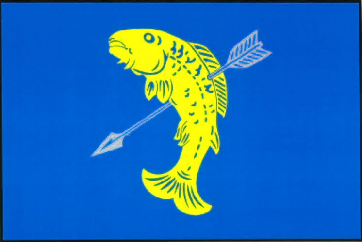 Flag of Czech municipality/market town Častolovice Česky: Vlajka městyse Častolovic: Modrý list se žlutou rybou vztyčenou do oblouku a šikmo prostřelenou bílým šípem hrotem k dolnímu rohu listu. Poměr šířky k délce listu je 2 : 3.